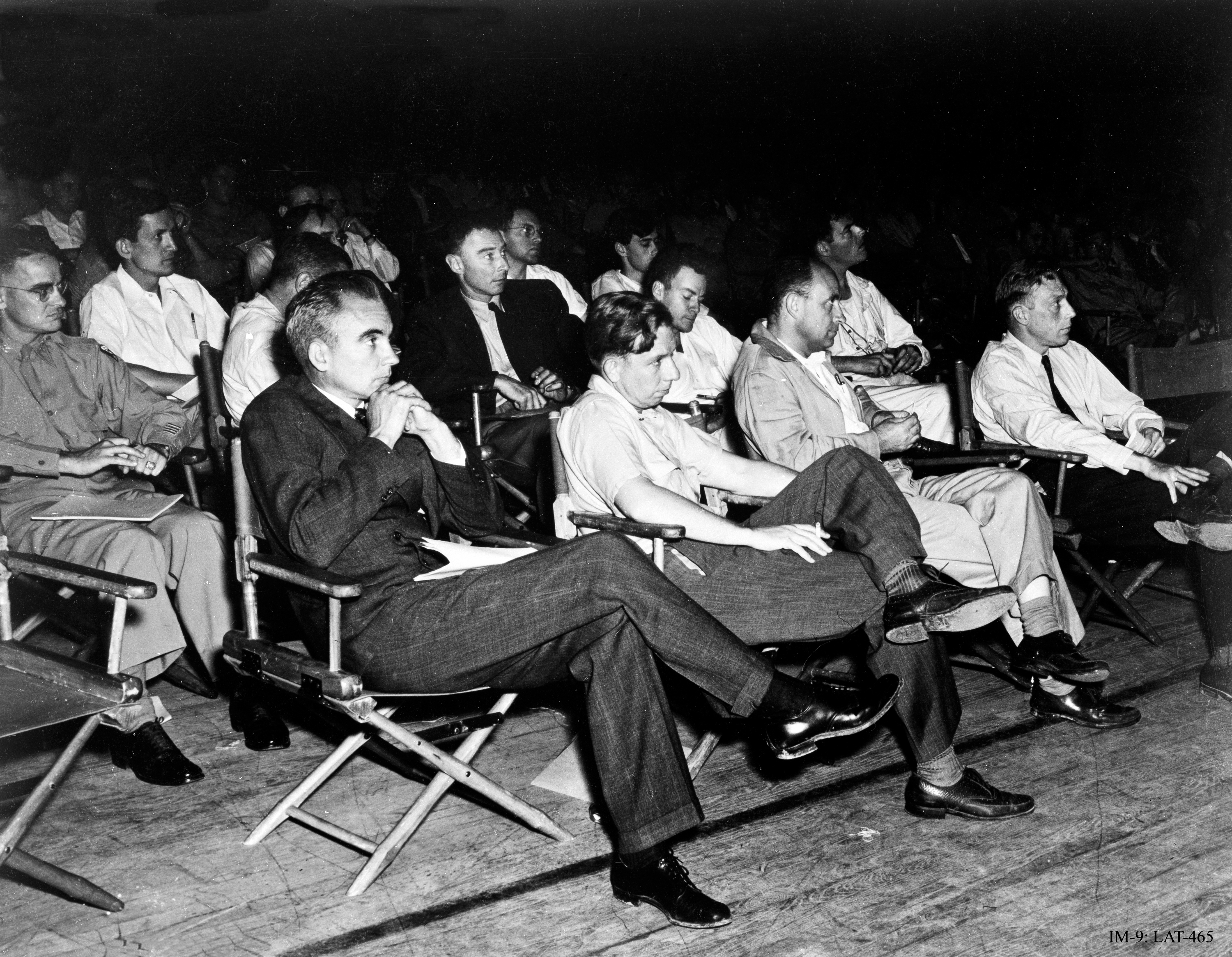 Photograph of the 1946 colloquium on the Super at Los Alamos. Front row left to right: Norris Bradbury, John Manley, Enrico Fermi and J.M.B. Kellogg. Second row left to right: Colonel Oliver G. Haywood, unknown, Robert Oppenheimer, Richard Feynman, Phil B. Porter. Third row left to right: : Edward Teller, Gregory Breit, Arthur Hemmendinger, Arthur Schelberg.